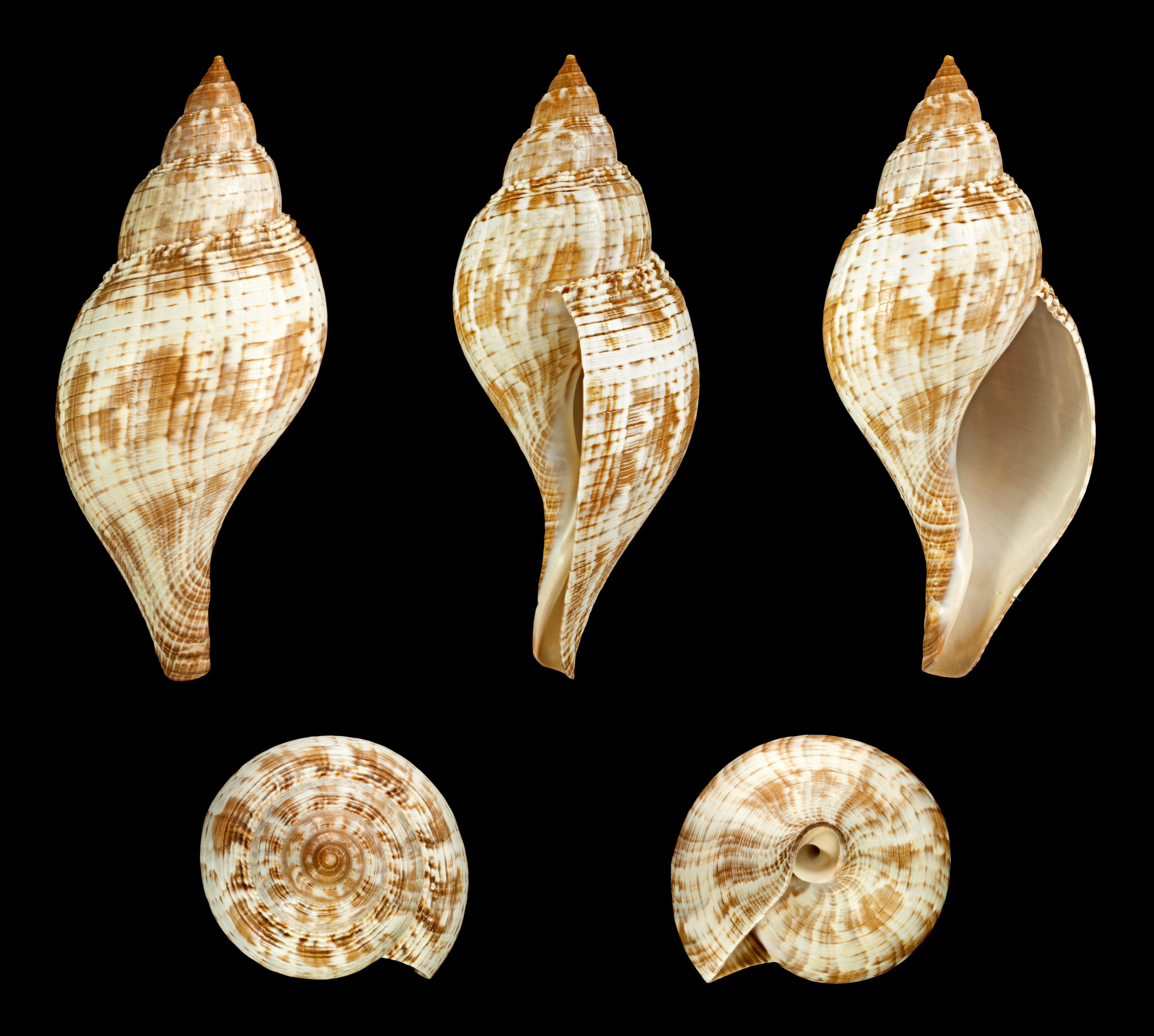 Fasciolaria tulipa Linné, 1758, True Tulip; Length 11.2 cm; Originating from Florida, USA. Shell of own collection, therefore not geocoded.